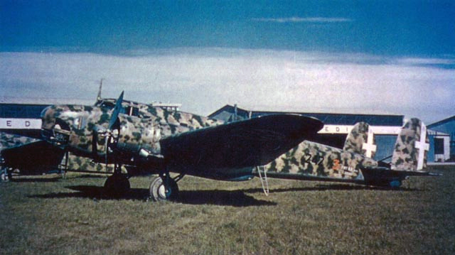 Fiat B.R.20M of 242 Squadron, 99 Group, 43 Wing